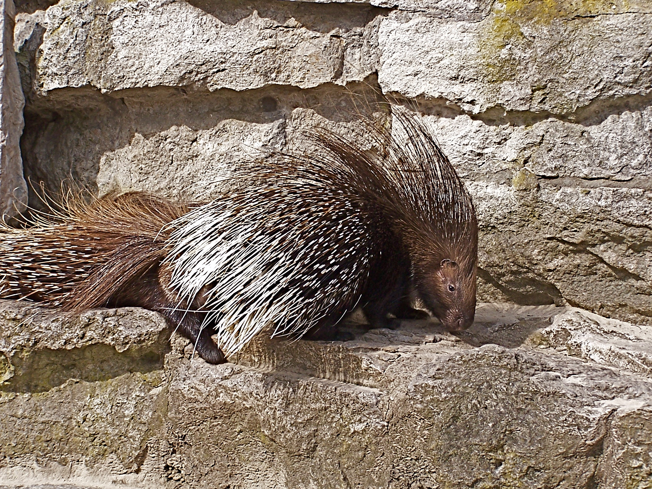 Hystrix leucura at Tierpark Berlin